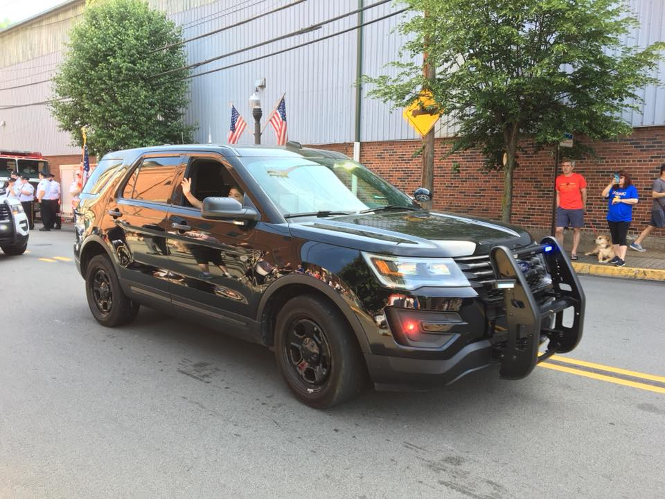 SPD - 3500-Chief